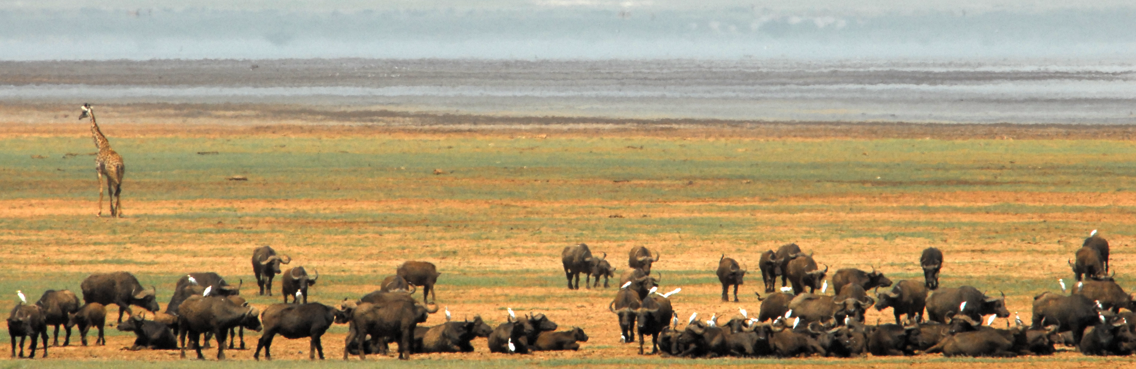 View of the Lake Manyara from a distance - hence lots of haze and blurry features. Seen from the Manyara National Park to the East.